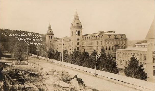 Ponemah Mills, Taftville, CT; from a 1907 postcard.